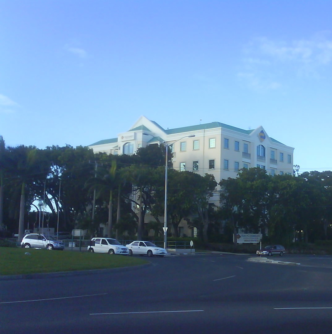 CIBC FirstCaribbean International Bank's head office in Warrens, St. Michael, Barbados.. Located at the junction of ABC Highway and Highway 2, Everton Weekes roundabout.